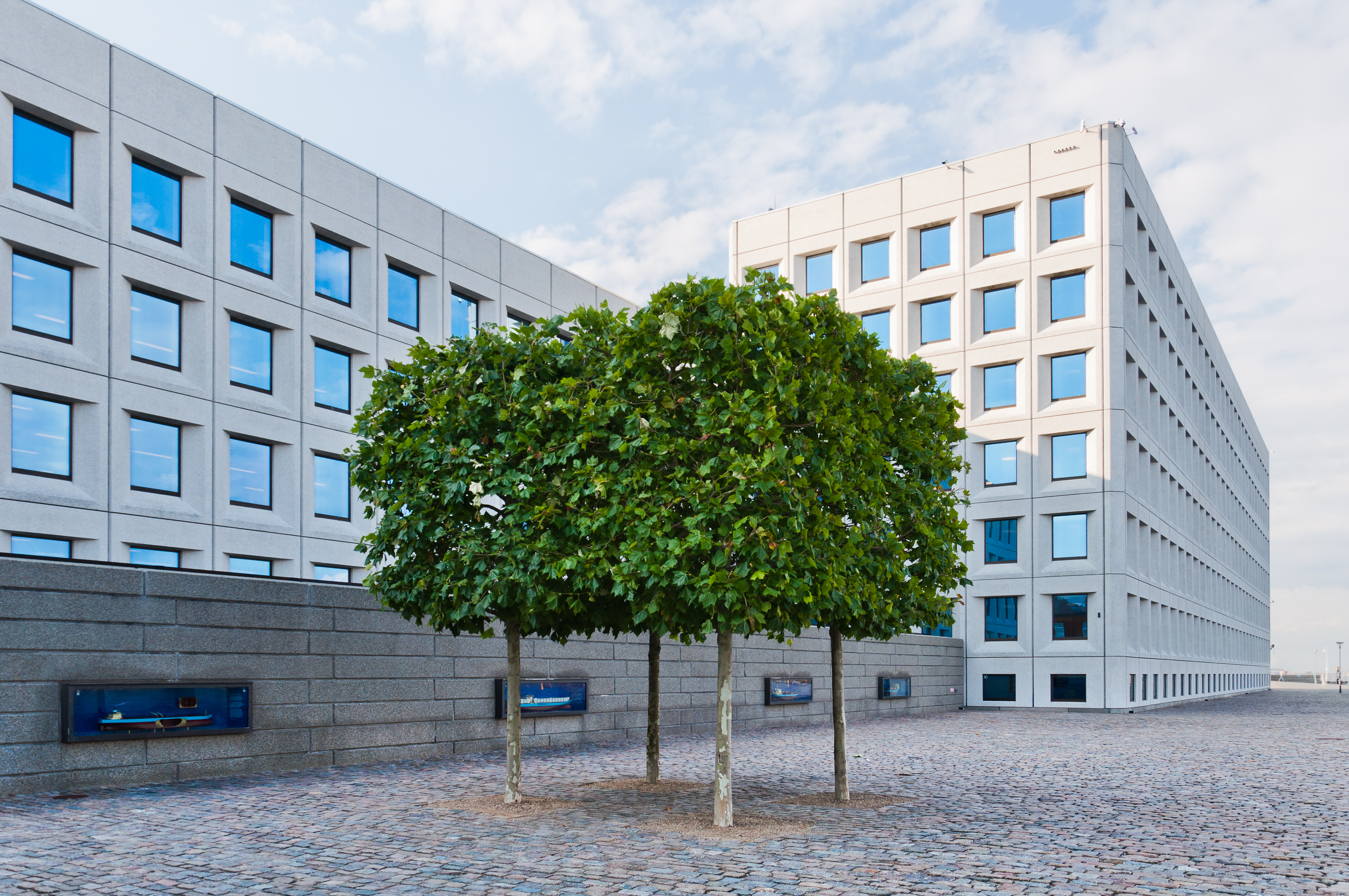 Maersk headquarters in Østerbro, Copenhagen.